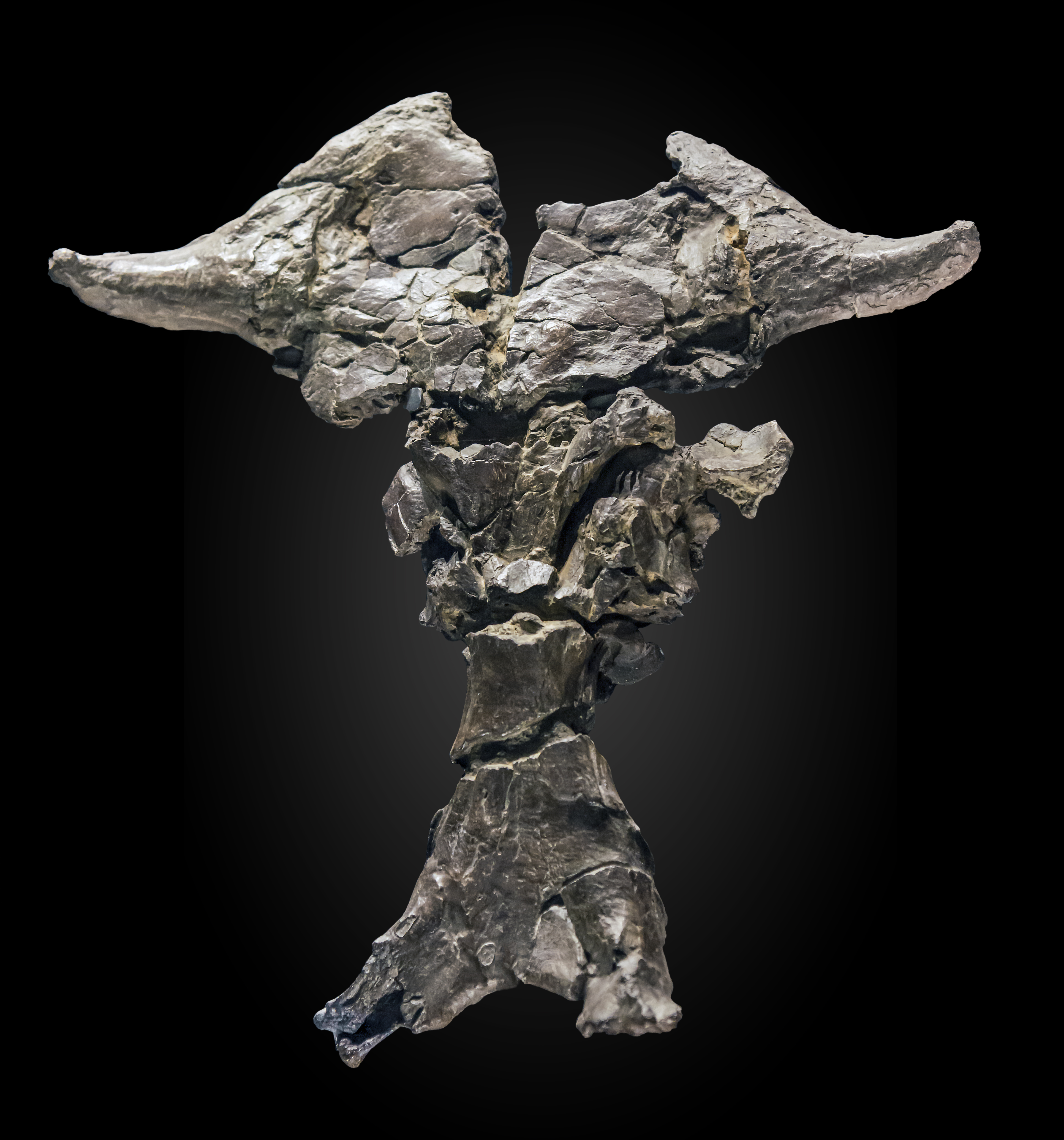 syntype of Ampelomeryx ginsburgi v, skull.